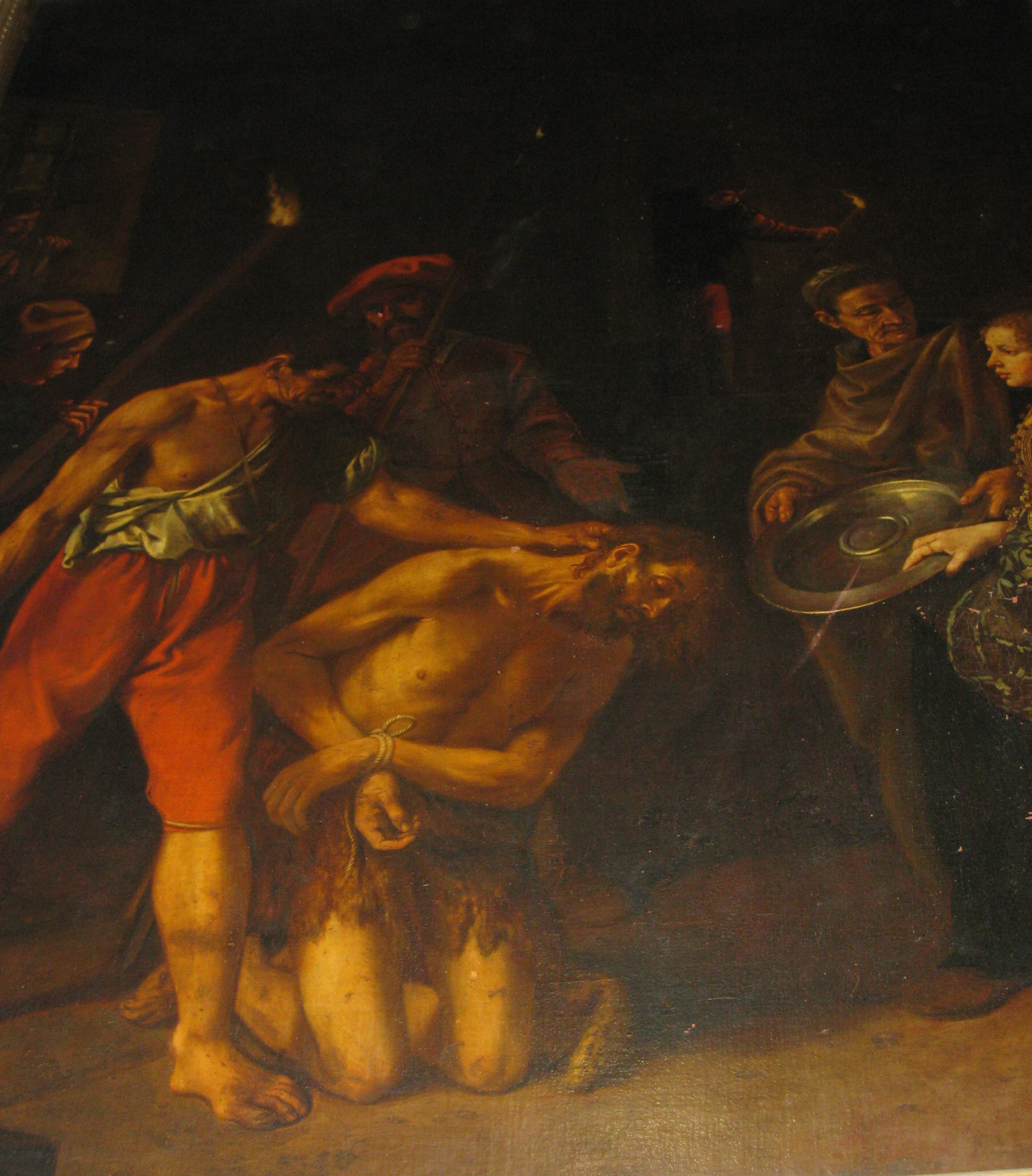 A drawing by the school of EL Greco - St. John the Baptist in the Mountains